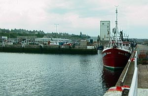 Buckie Harbour. Own picture.